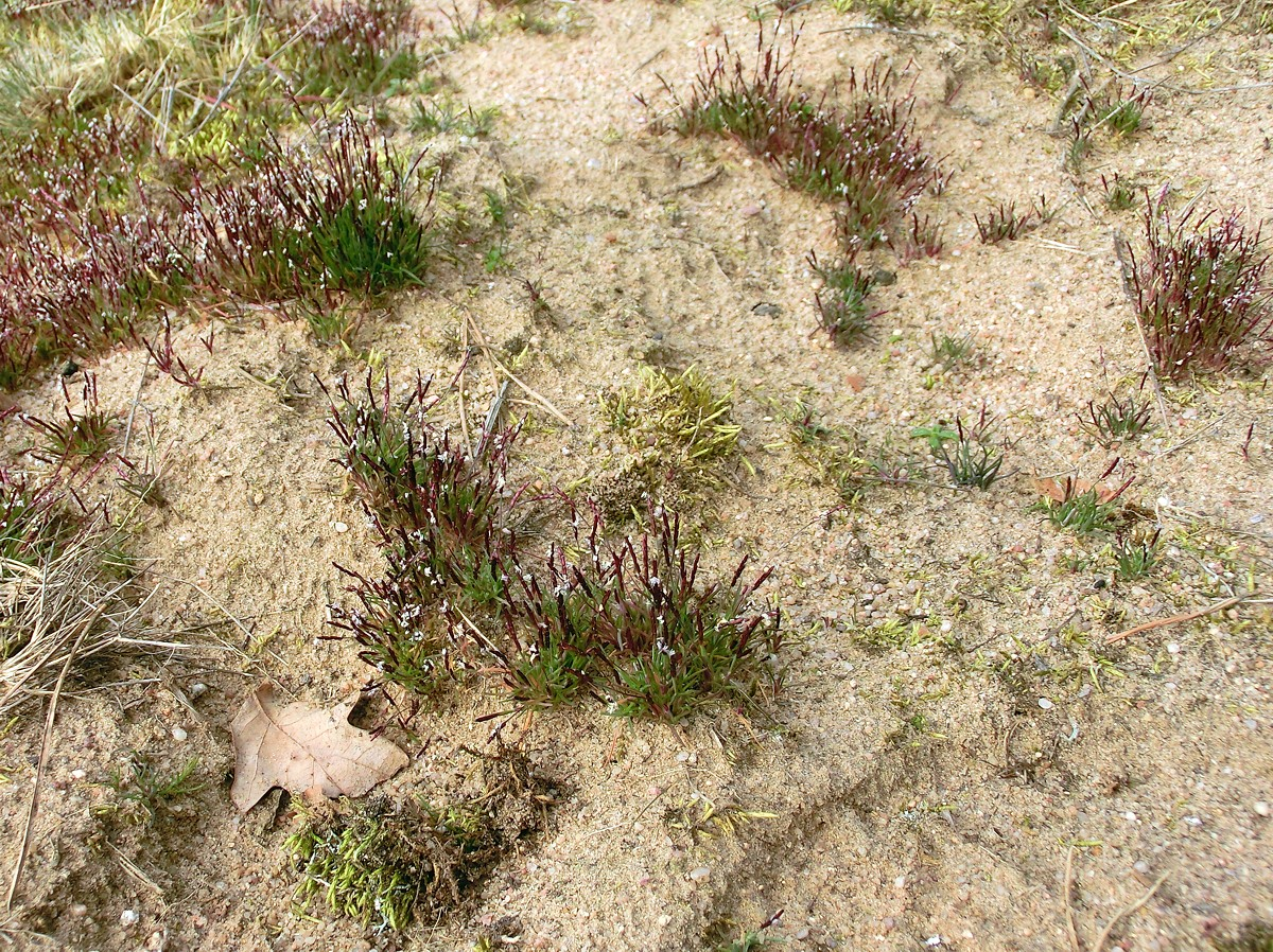 Mibora minima, habitat. - Germany, southern Hesse, Landkreis Darmstadt-Dieburg, Weiterstadt-Gräfenhausen, "Apfelbach" sand dune.